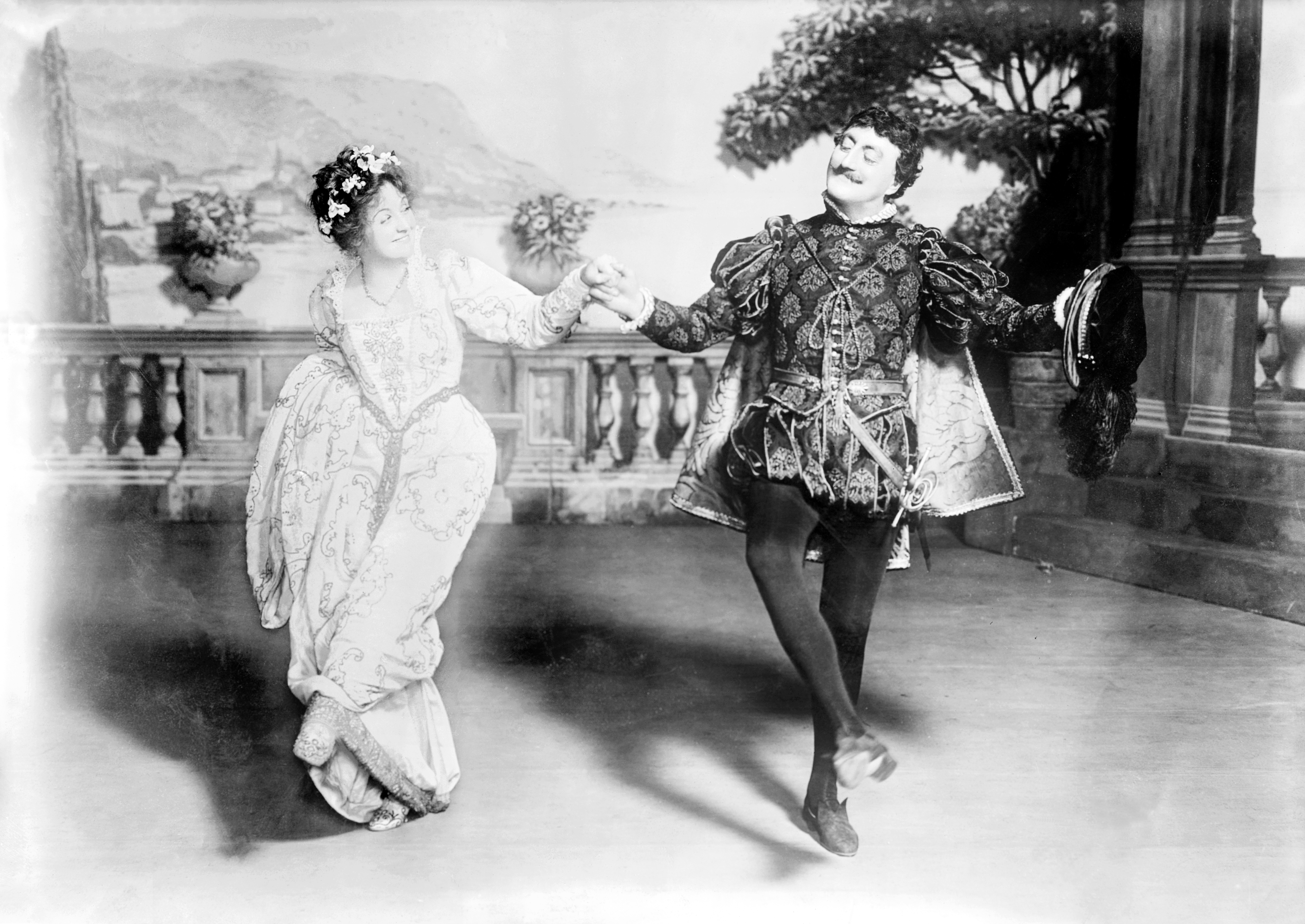 Laura Hope Crews and John Drew in "Much Ado About Nothing" (1913) Broadway production by Charles Frohman; more information here